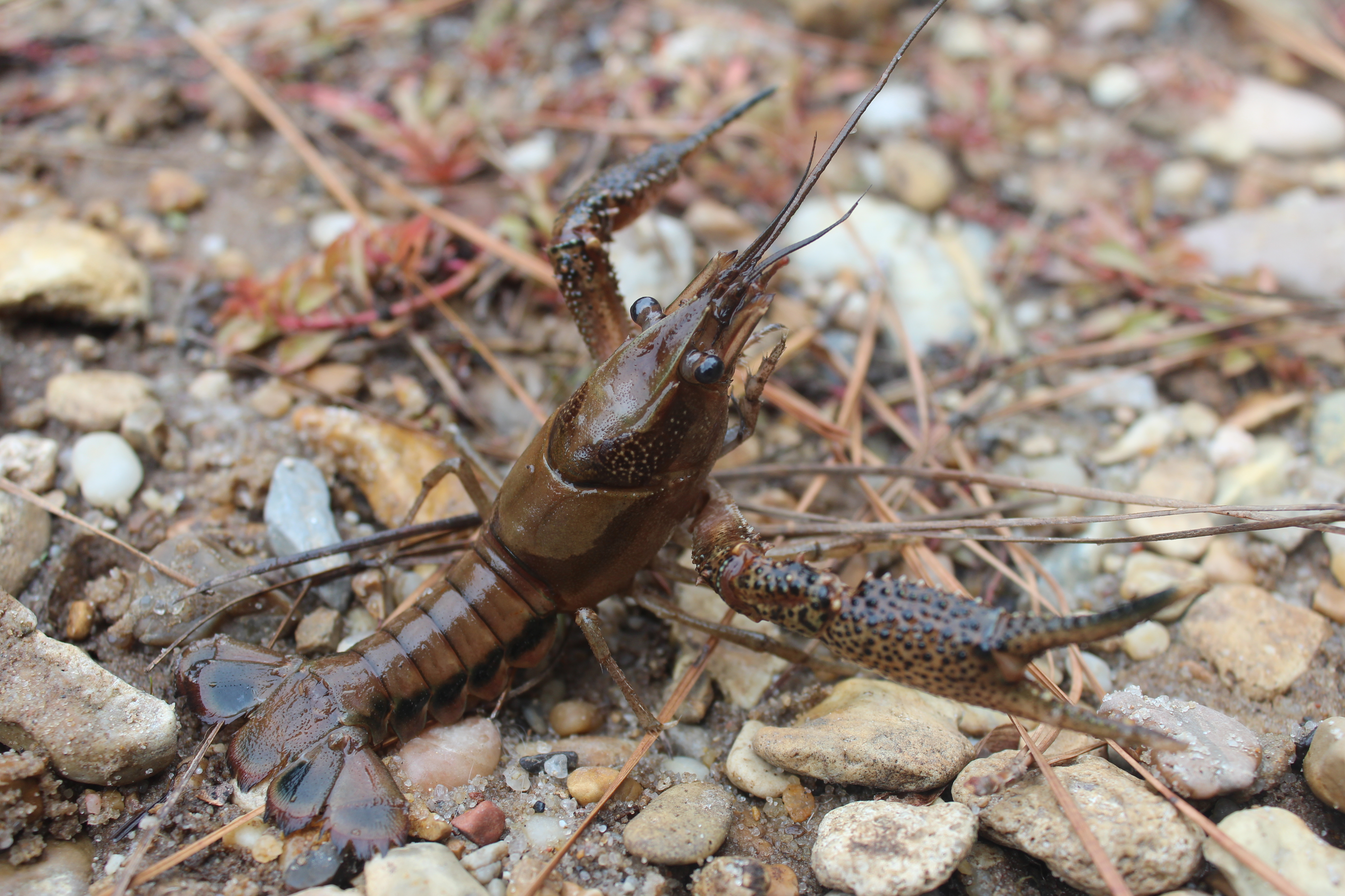 The Pinelands Creek Crayfish, Procambarus vioscai